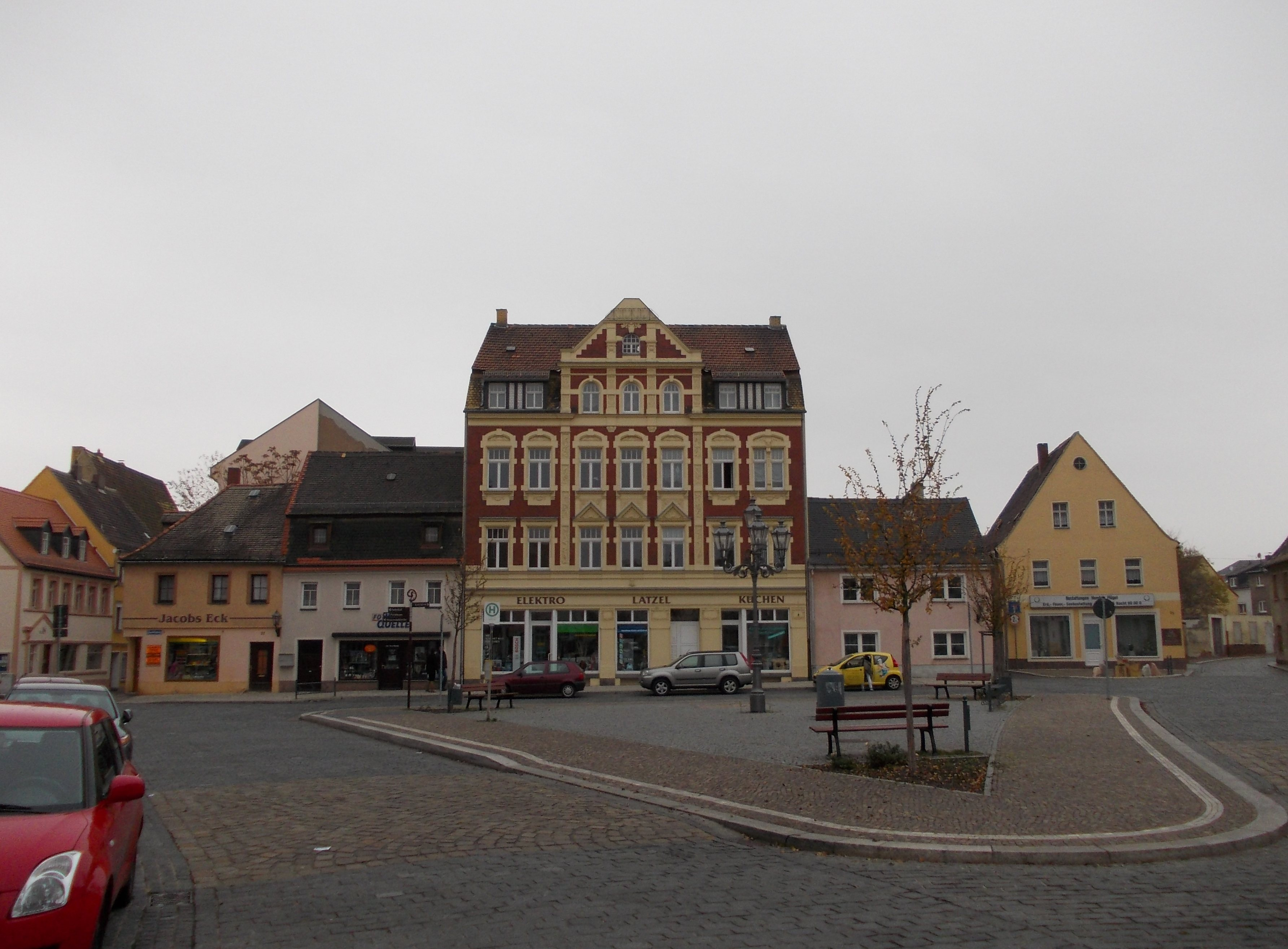 Jacobsplatz in Wurzen (Leipzig district, Saxony)